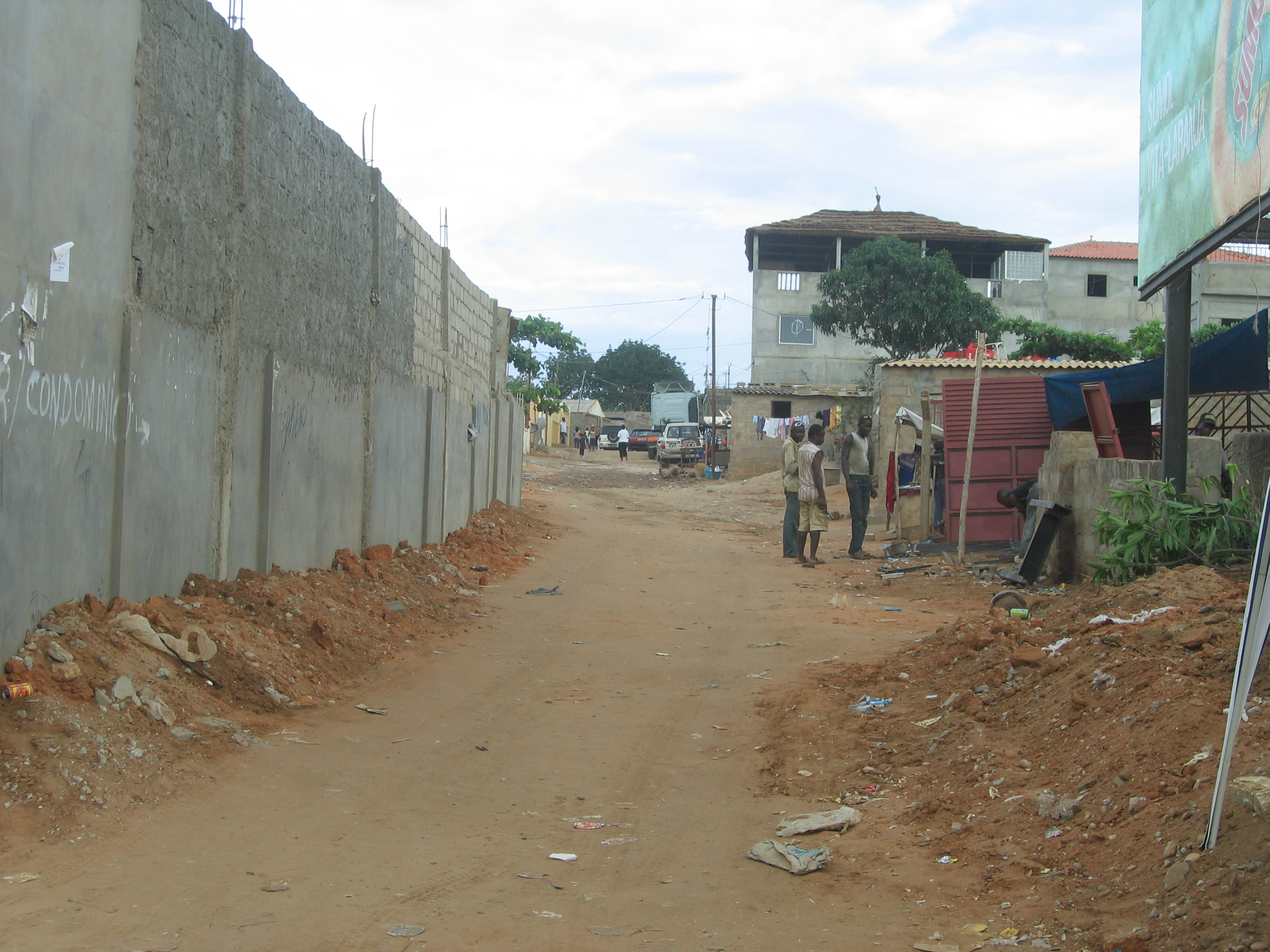 A side street in southern Luanda, Angola